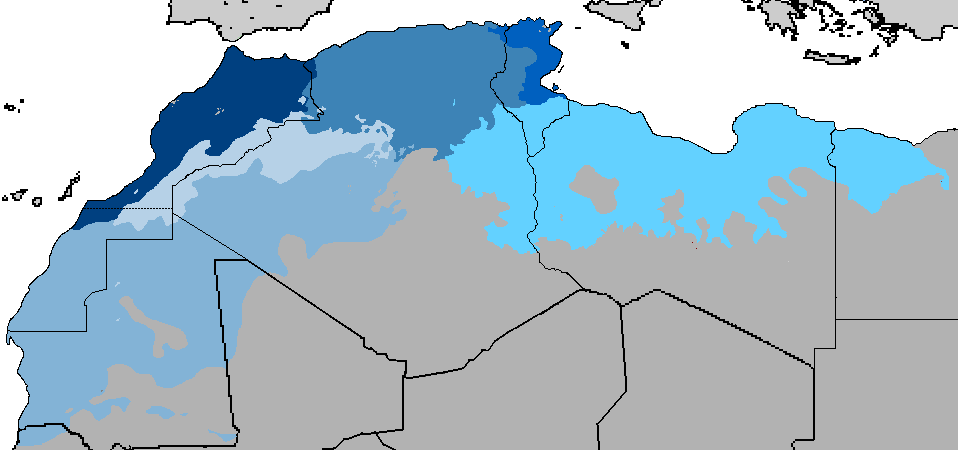 Maghreb Arabic. Moroccan Arabic Tunisian Arabic Libyan Arabic Algerian Arabic Hassaniya Arabic Algerian Saharan Arabic